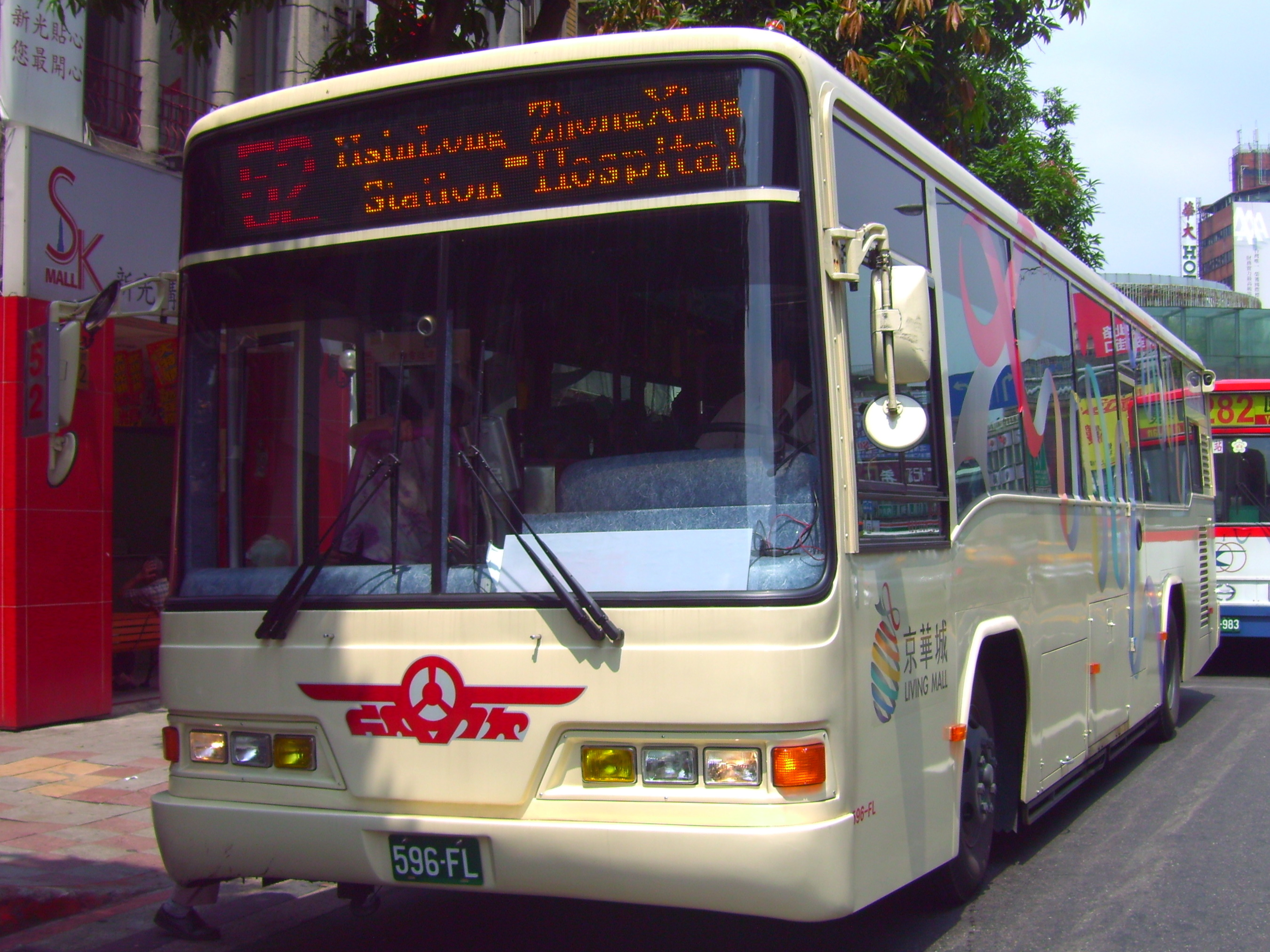 Shin-Shin Bus Company, Ltd. purchased Isuzu LT134P buses at May 2007, but this bus 596-FL painted with ceramic color, not pink color that people often see.